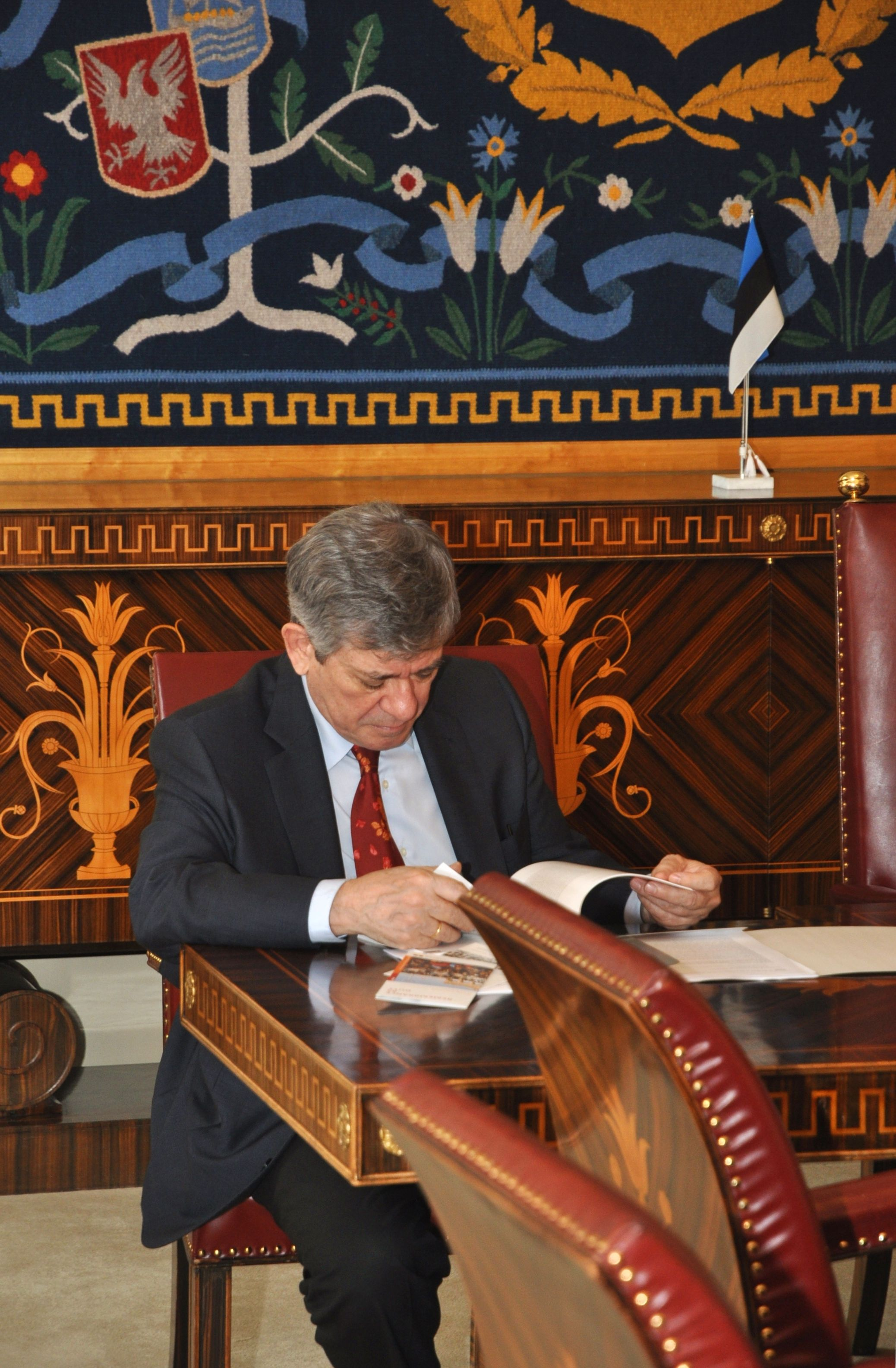 International Learned Committee of Experts of Estonian Institute of Historical Memory held a working meeting. Chairman Enrique Barón Crespo.